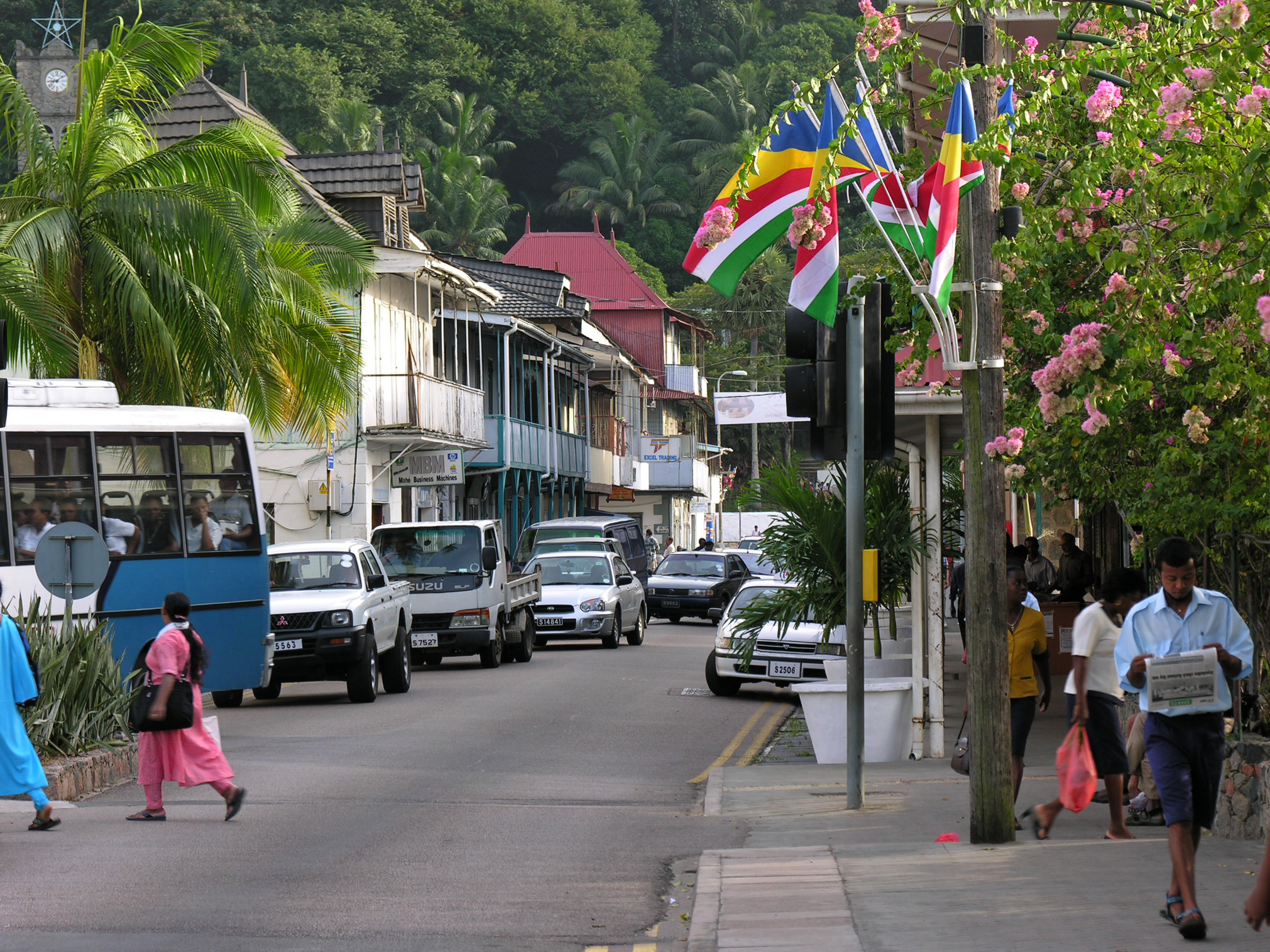 Seychelles, Victoria